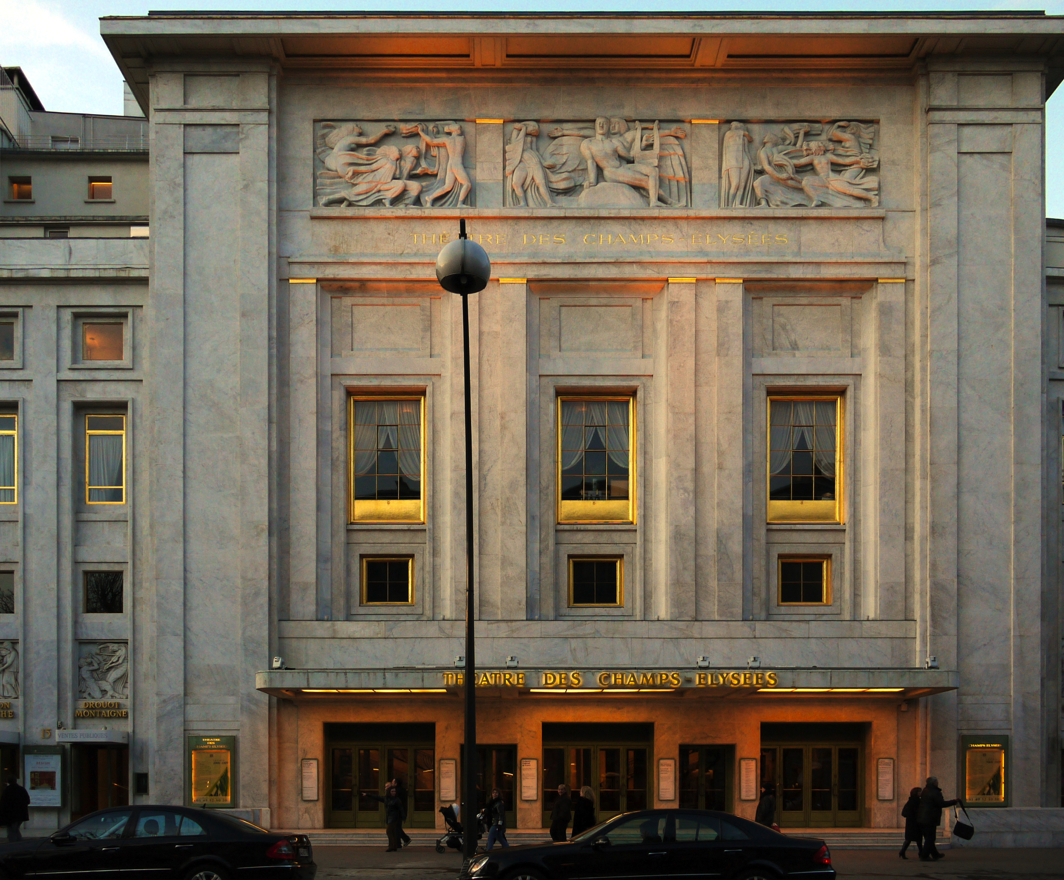 Théatre des Champs Elysées, Paris, France